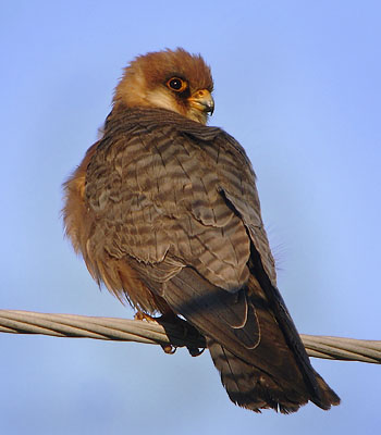 Red-footed falcon (Falco vespertinus), adult female. Photographed at Värmdö, Uppland